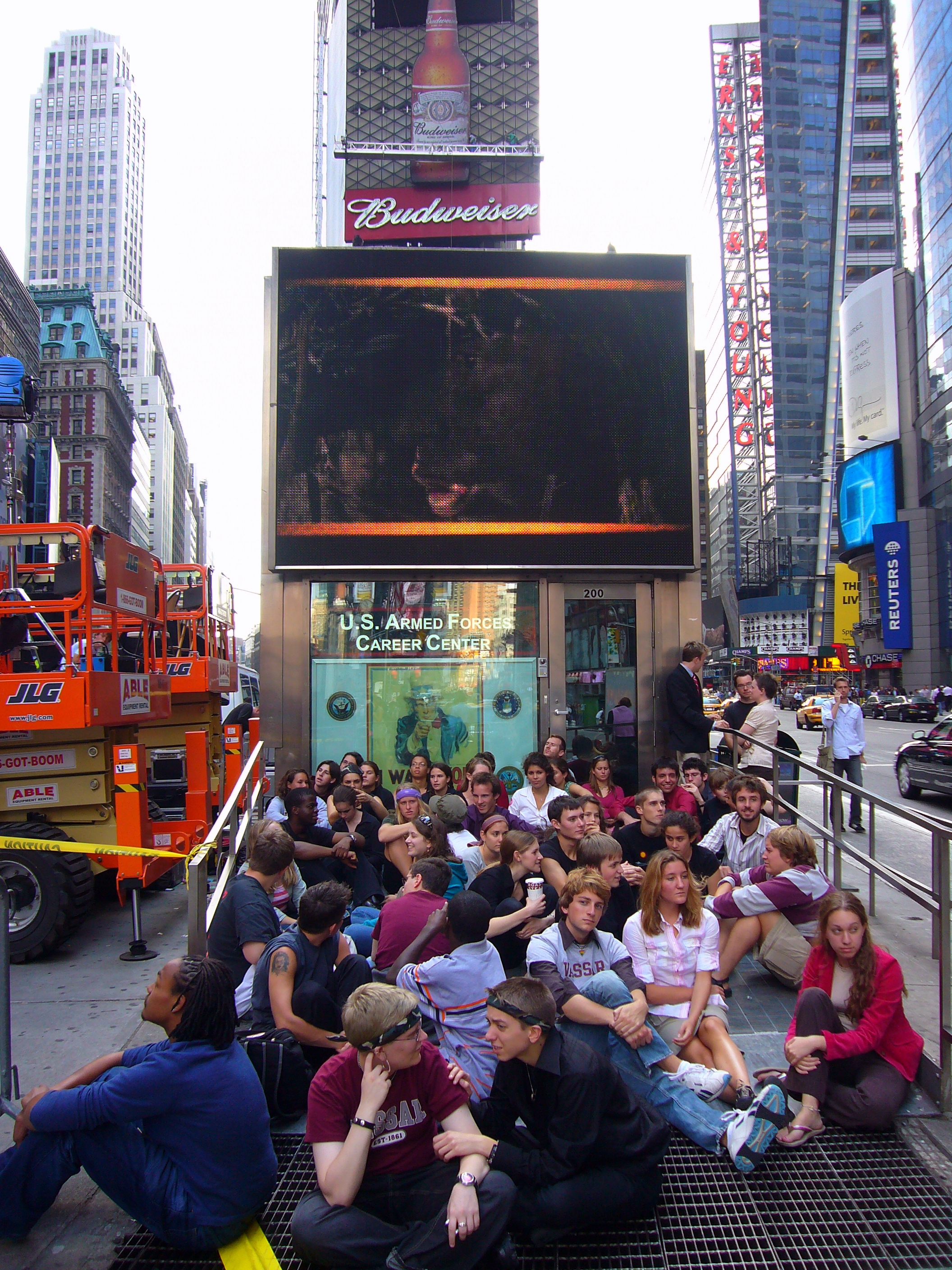 This group of 55 Vassar students banded together with organizers from the national foundation Soulforce to take a stand against the Military's Don't Ask Don't Tell policy at the Armed Forces Recruitment Center in Times Square.